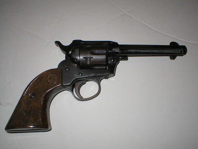 Rohm RG66 revolver in 22LR